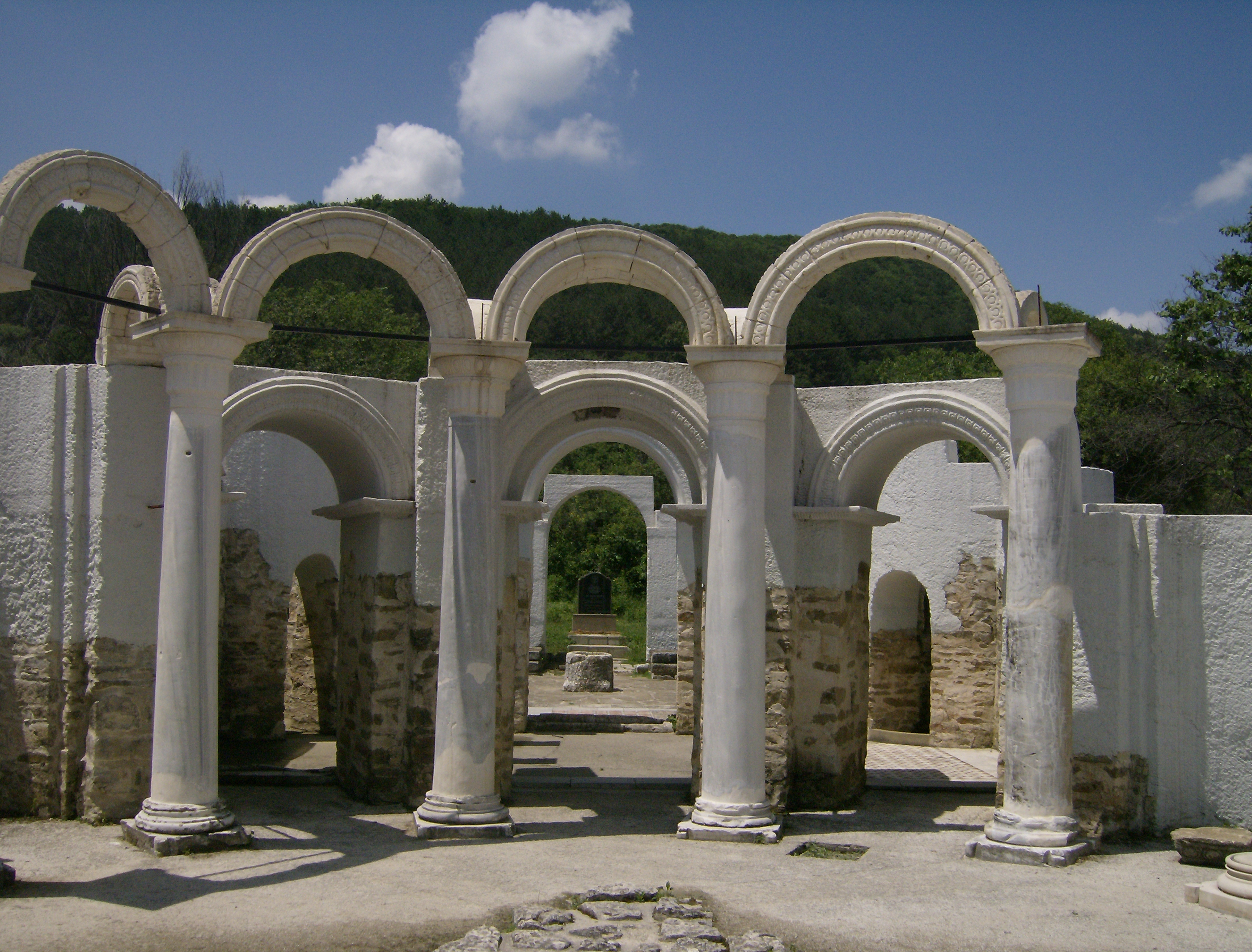 Preslav Fortress